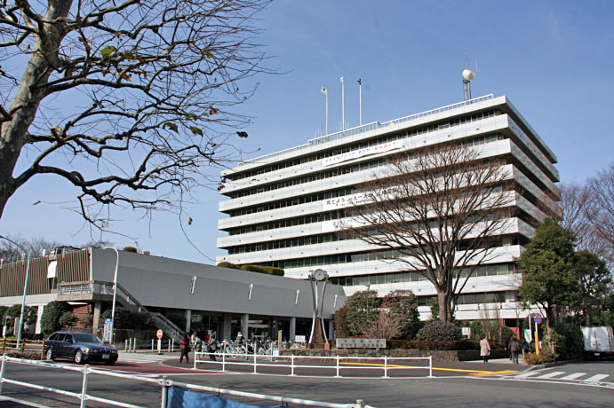 Nakano City Office (Tokyo Metropolitan Area)